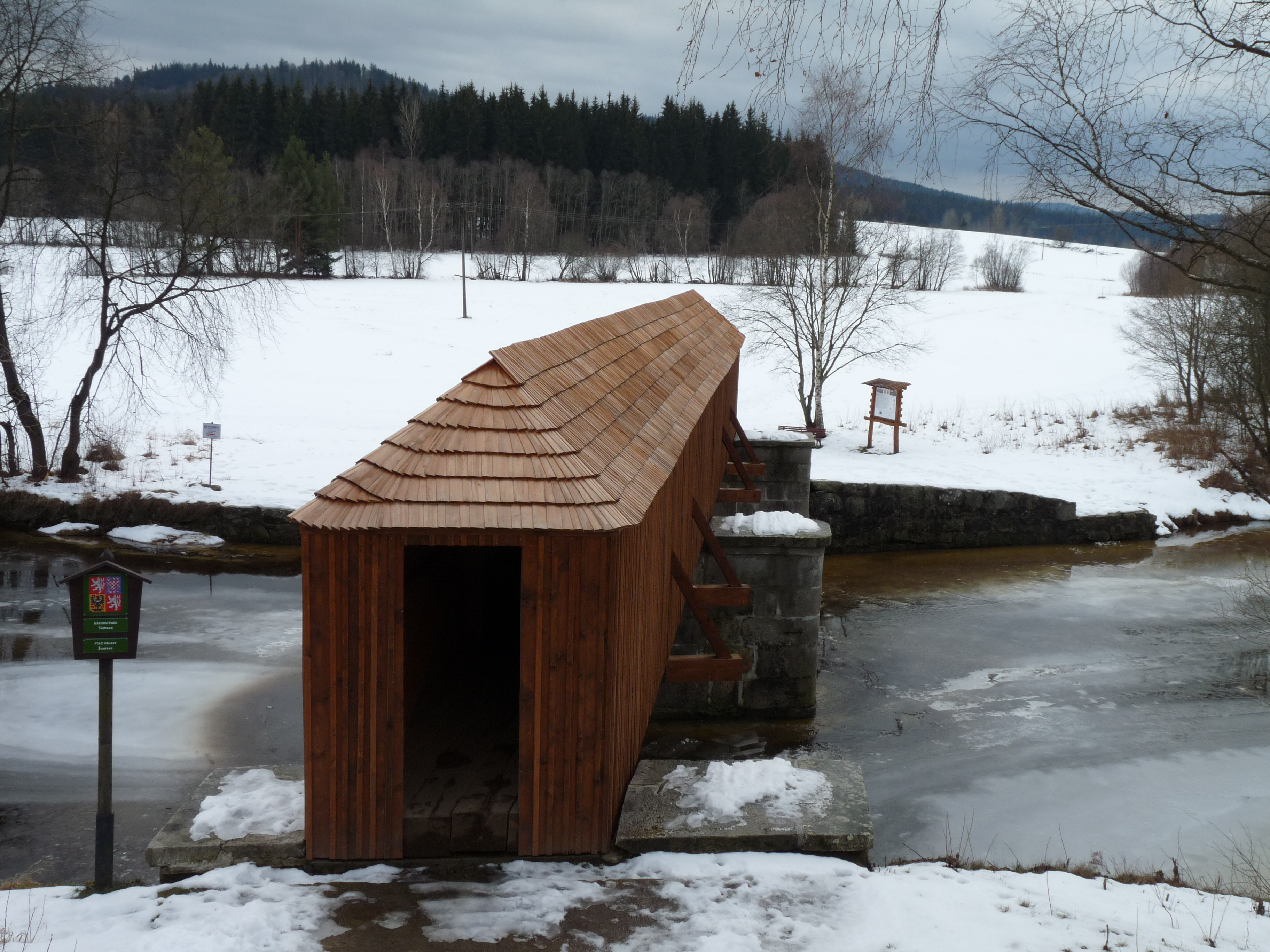 Bridge over the Teplá Vltava River in the village of Lenora, Prachatice District, South Bohemian Region, Czech Republic.